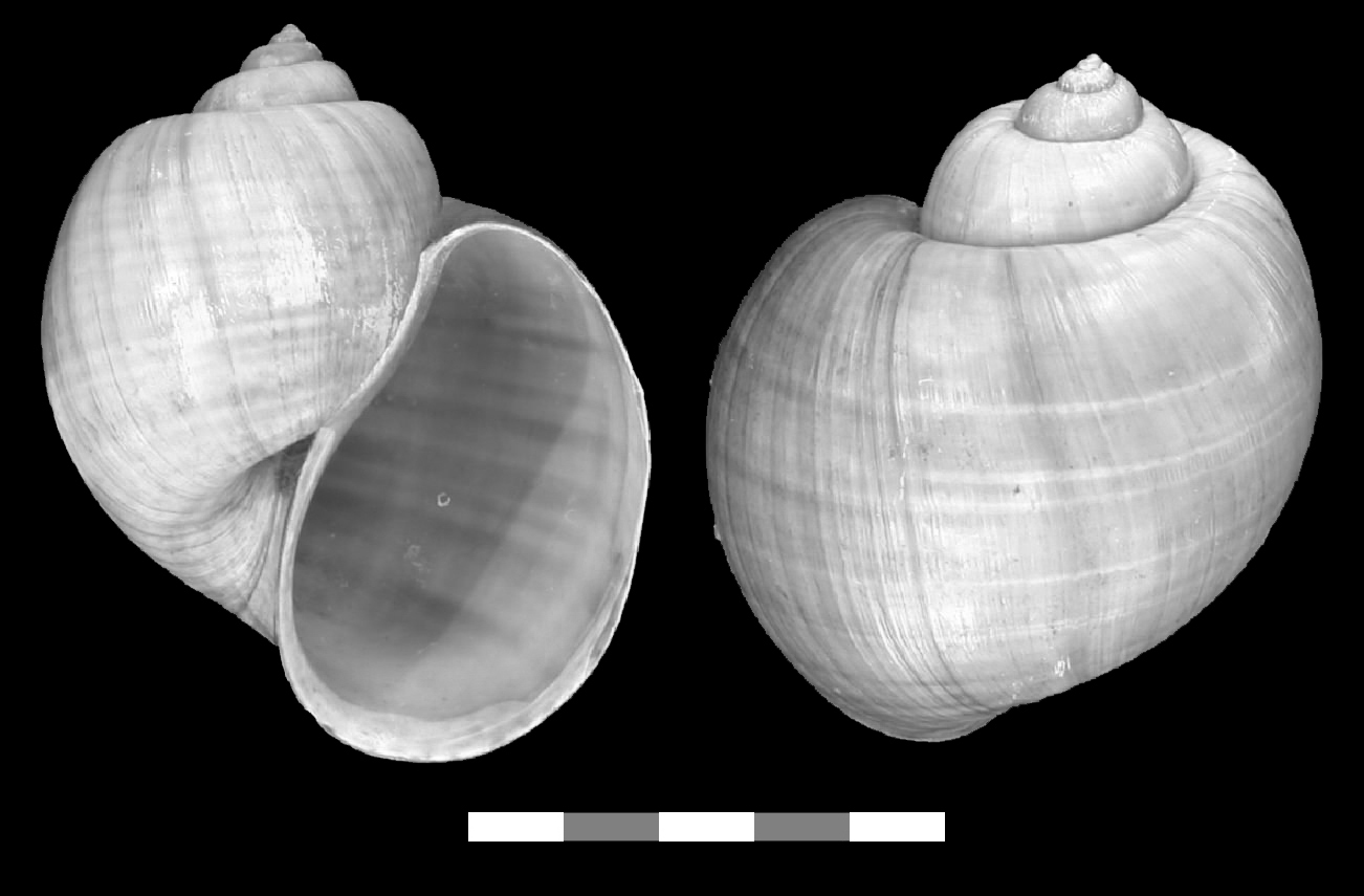 photo of shell of Pomacea haustrum. Scale Bar: 5 cm.